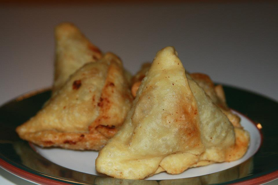 Homemade Gulab Jamun and Samosa made by me and my husband....picture courtesy.... my husband.....